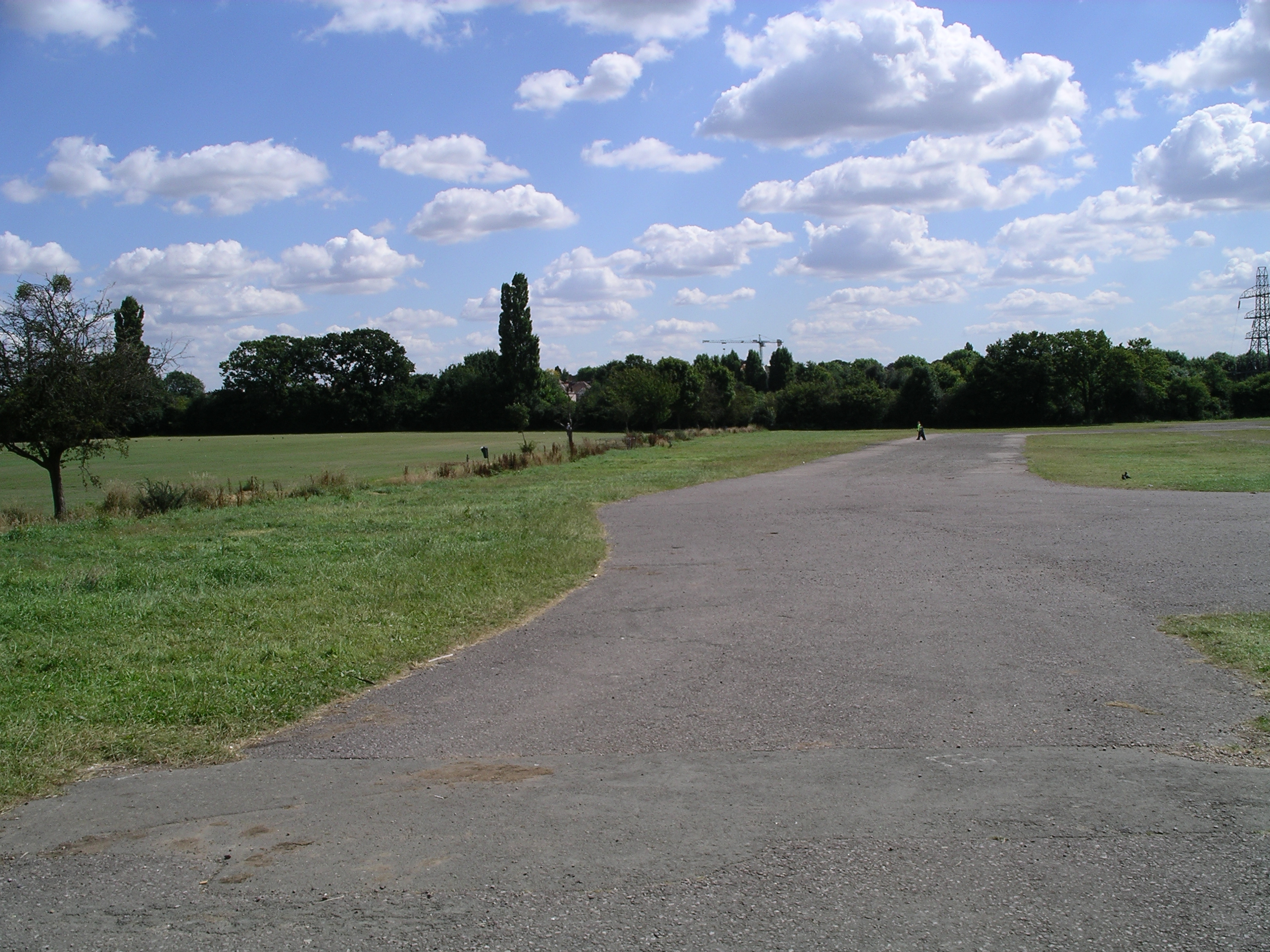 Photo of Hearsall Common, Coventry, England, showing the tarmacked area.